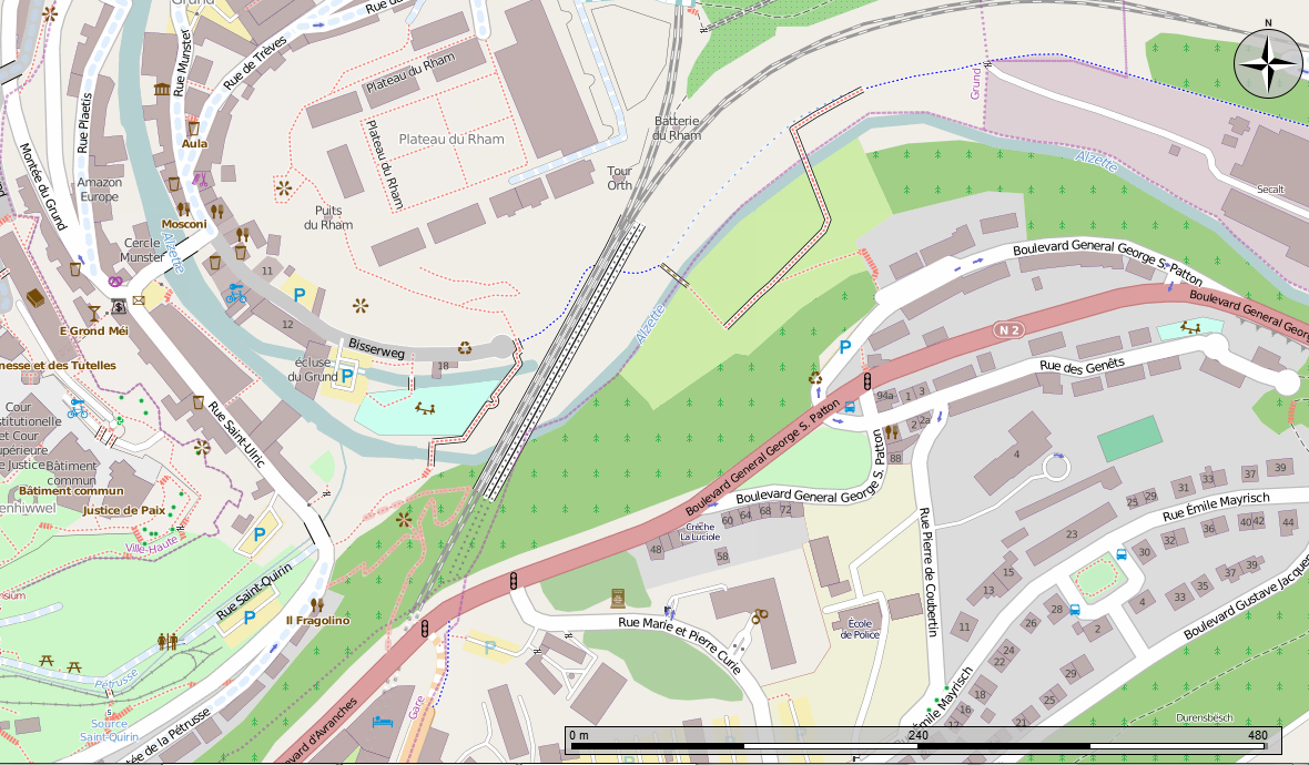 Cropped from the Marble program, shows the Pulvermuhl Viaduct with an Open Street Map overlay.